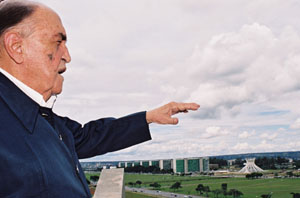 Oscar Niemeyer's best photography.